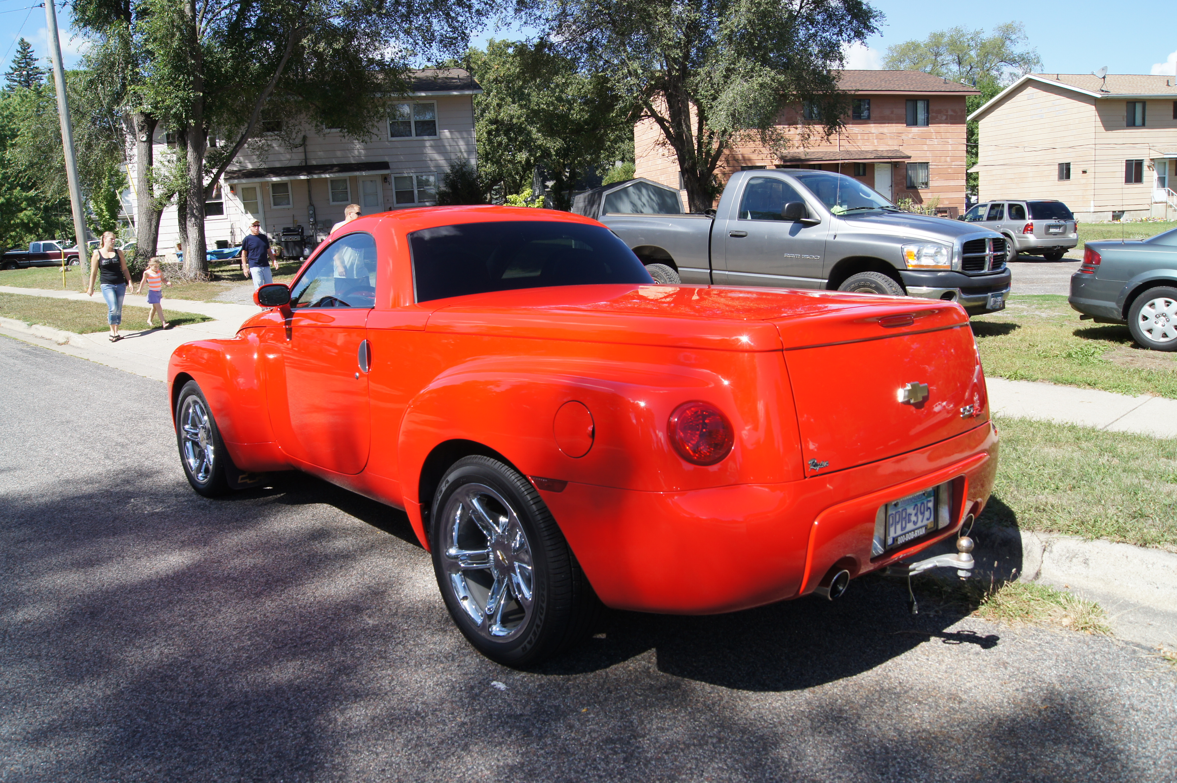 St. Cloud Antique Auto Club Pantowner's 37th Annual Car Show & Swap Meet